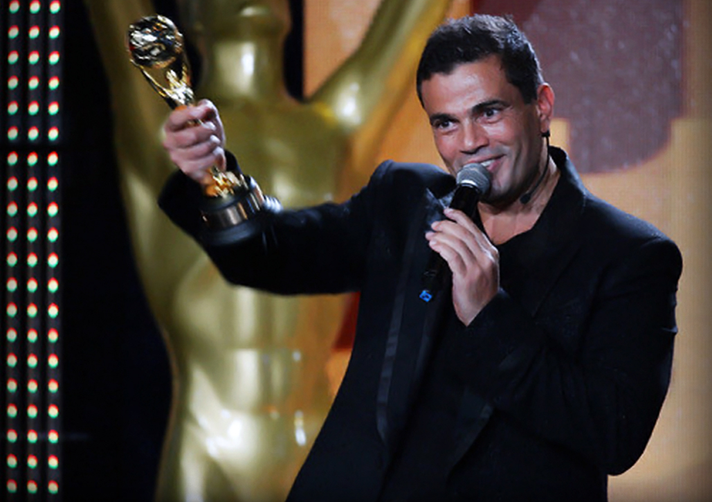 Amr Diab receiving his 3rd award at World Music Awards